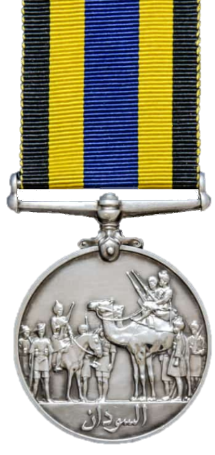 General Service Medal of Anglo-Egyptian Sudan, for small campaigns, 1933-40